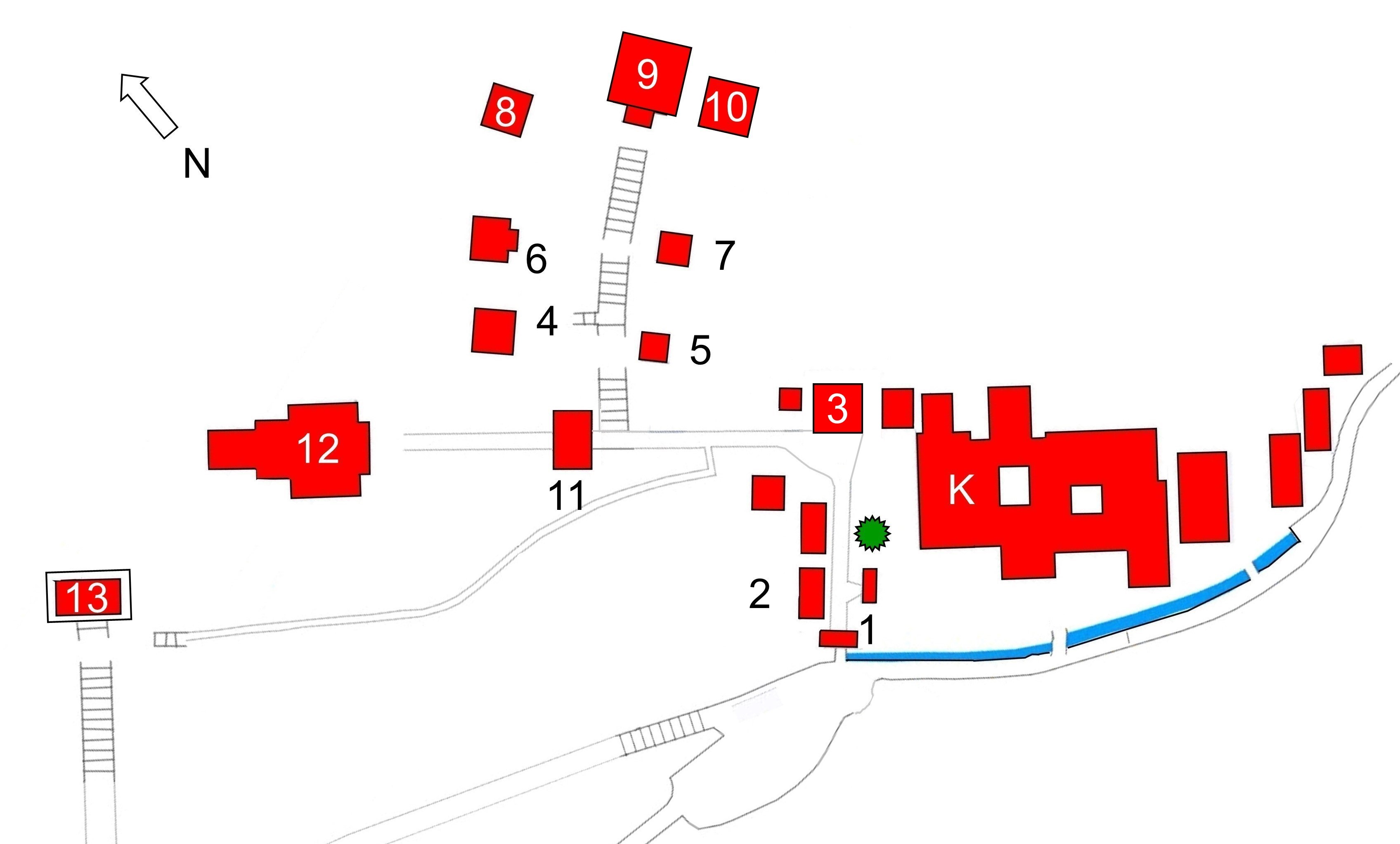 Layout of Shiromine temple at Sakaide (Kagawa Prefecture) Japan